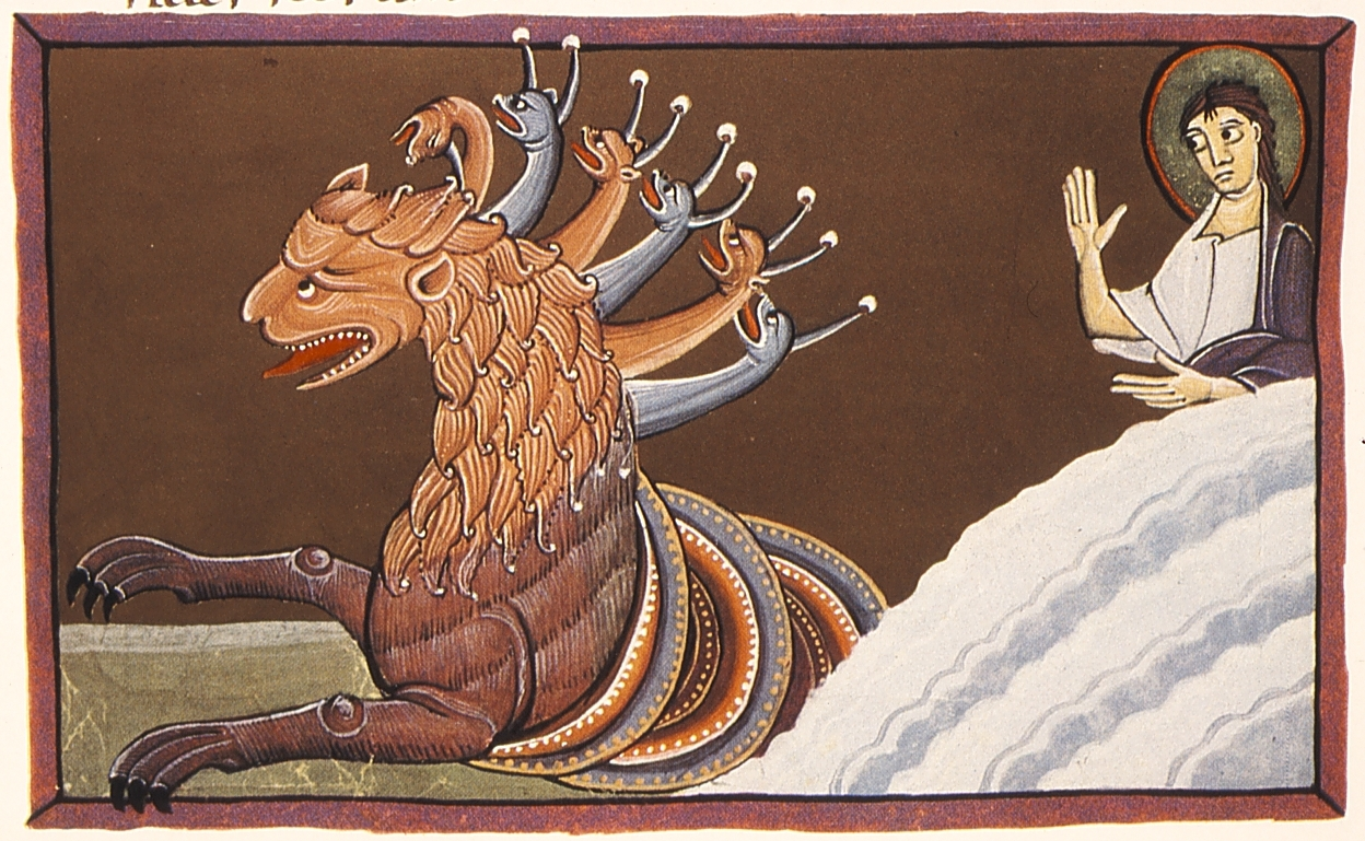 The Beast from the sea with seven heads